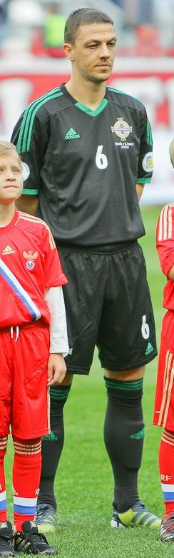 Chris Baird representing Northern Ireland against Russia in FIFA World Cup qualifier in 2012.